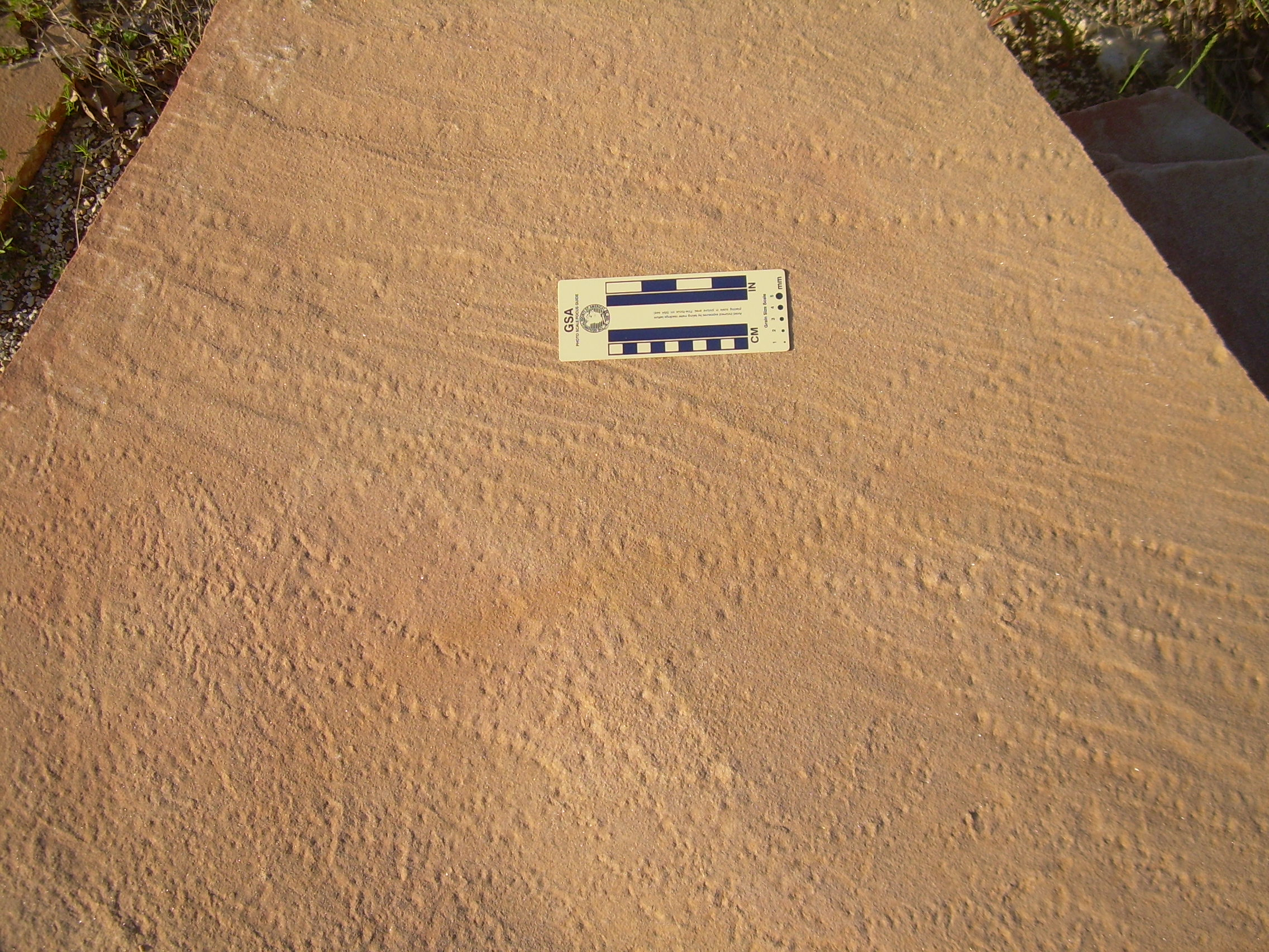 Three meter slab of Diplichnites trackways showing characteristic paired footprints.